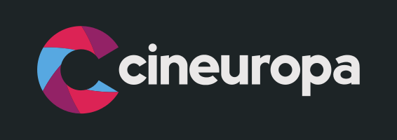 Cineuropa logo